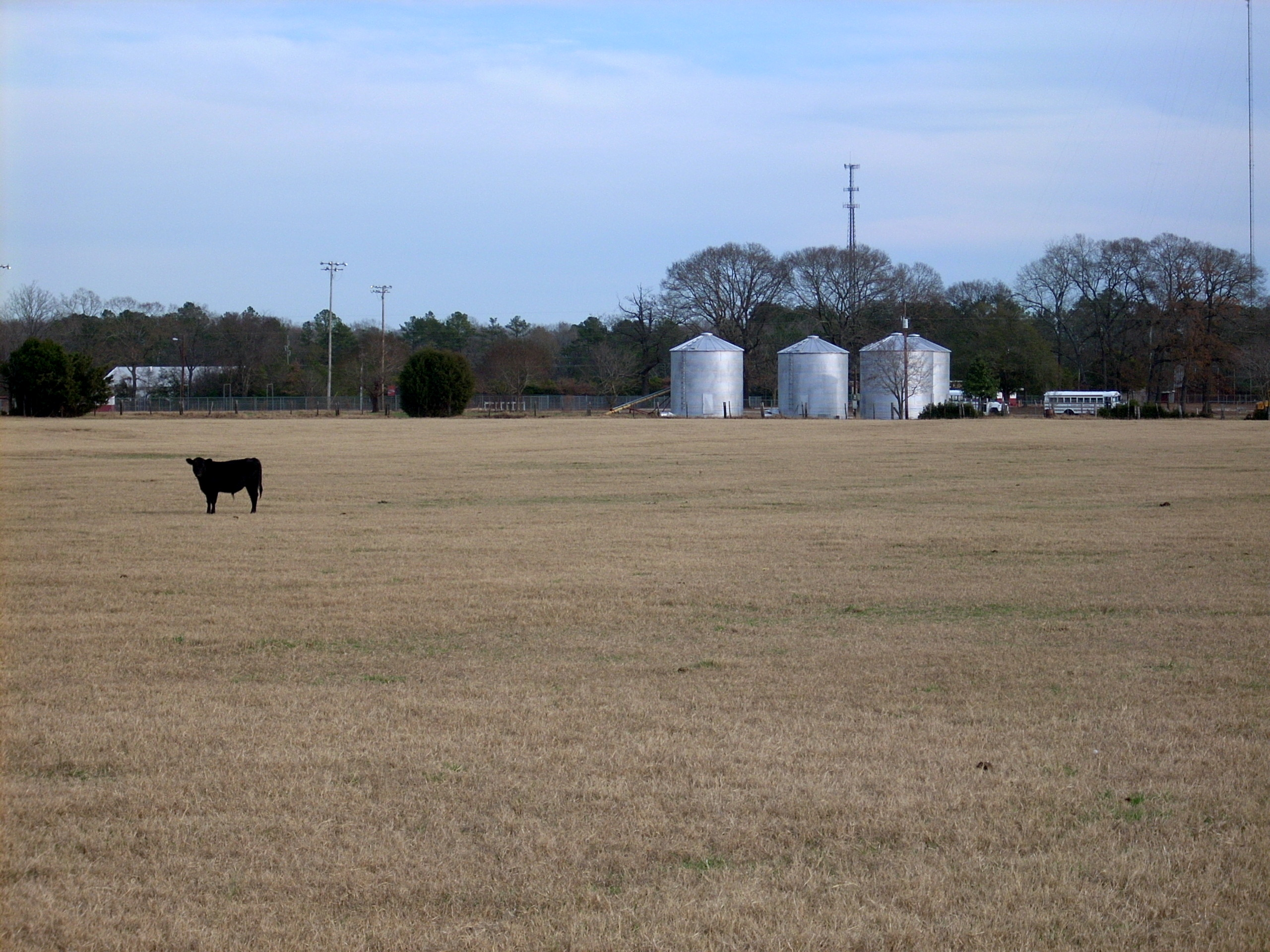 A pasture with Tar Heel middle school's football field in the background